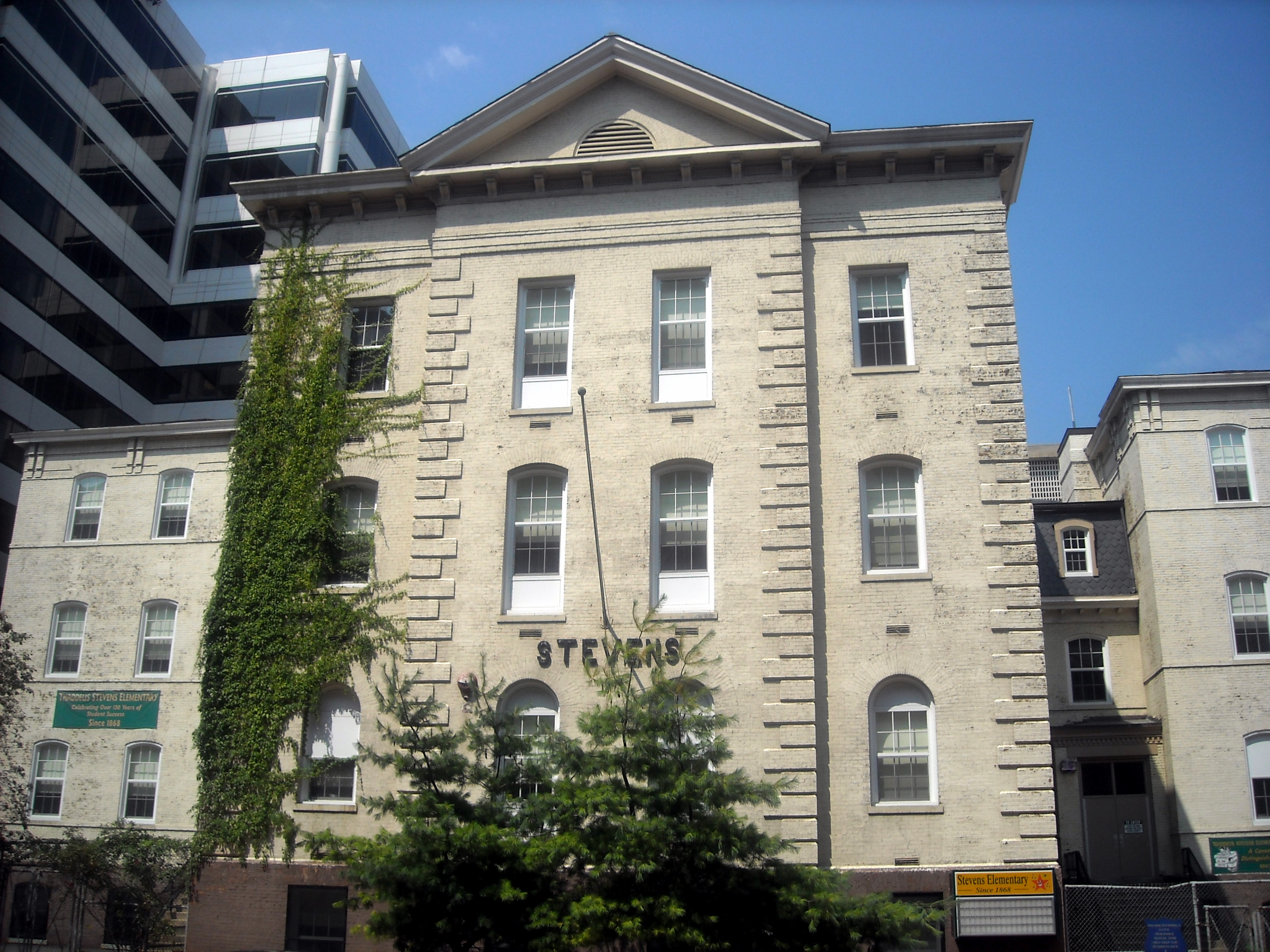 The Thaddeus Stevens School (also known as Thaddeus Stevens Elementary School or Stevens Elementary School) located at 1050 21st Street, NW in Washington, D.C. Designed by Alexander Pannell in 1868, the Colonial Revival/Romanesque building is one of the city's oldest surviving elementary schools built to educate African-American children. The school was named in honor of the Pennsylvania congressman and abolitionist Thaddeus Stevens. In 2001, the building was placed on the National Register of Historic Places.